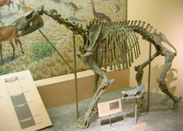 Moropus elatus fossil at the National Museum of Natural History, Washington, D.C.